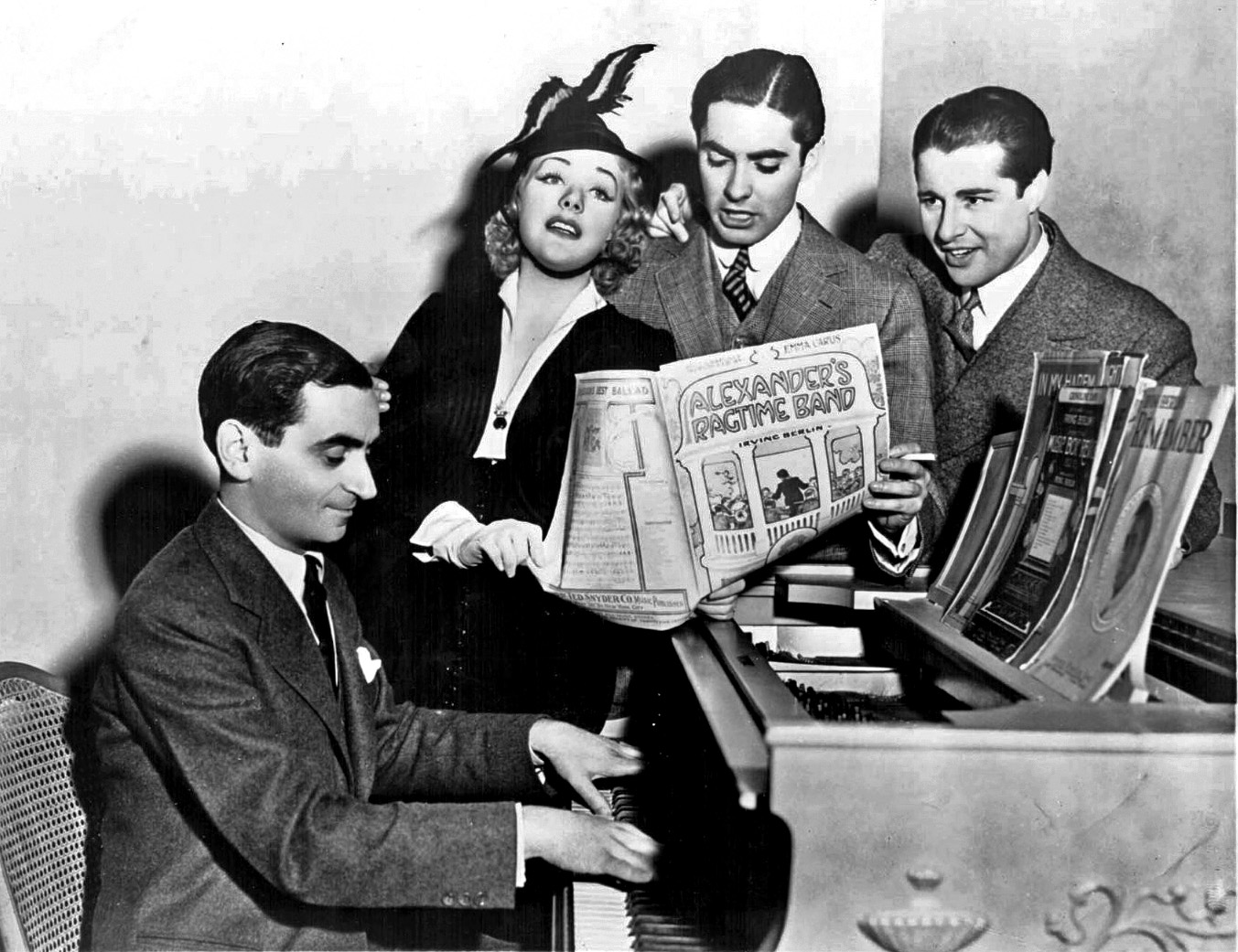 Press photo of Irving Berlin and the stars of the film, Alexander's Ragtime Band, L-R: Alice Faye, Tyrone Power, and ? (possibly Don Ameche).